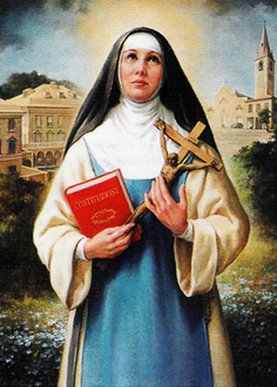 Painting portrait of Blessed Maria Vittoria De Fornari Strata.